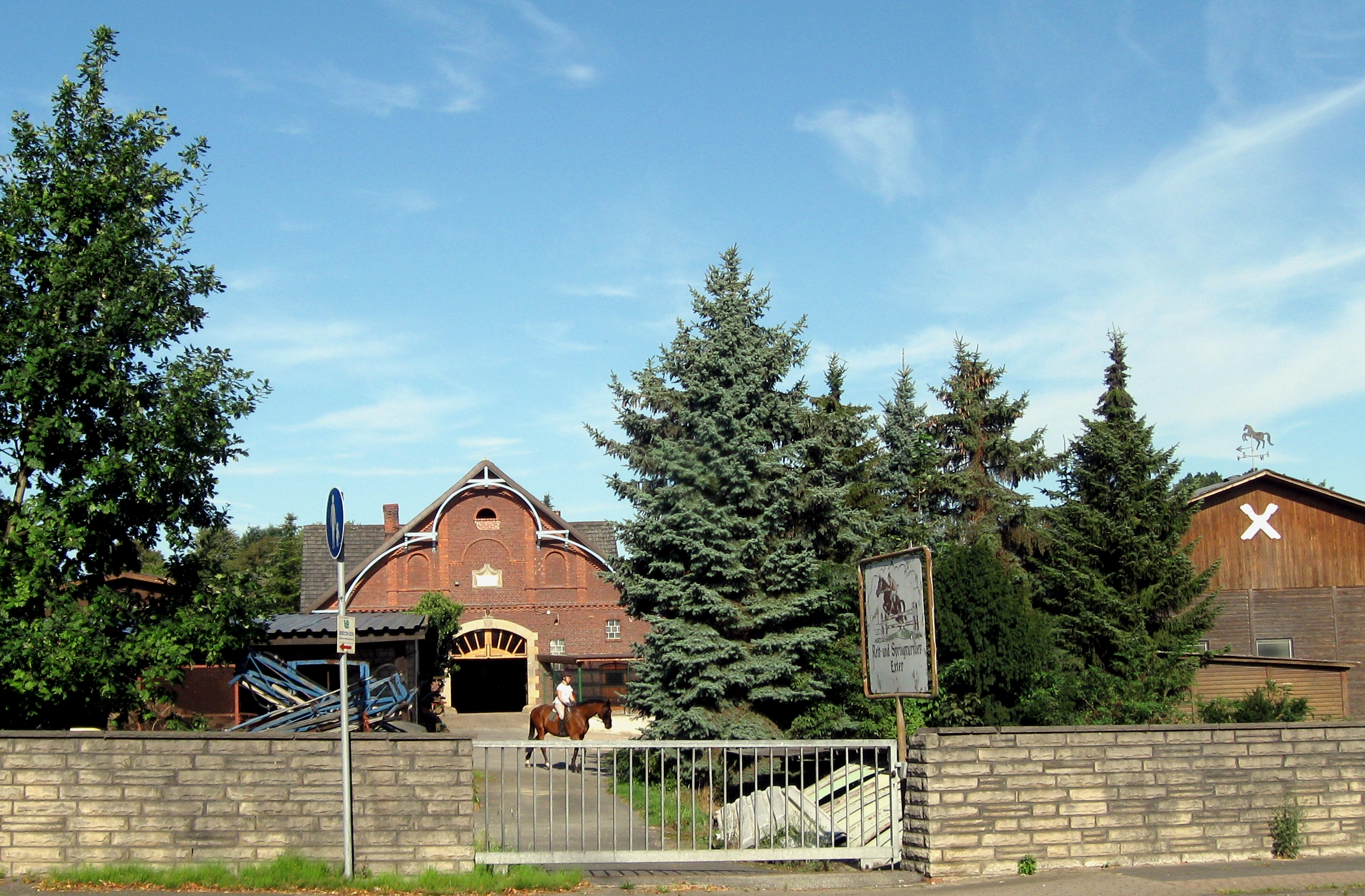 Duestersieks farm formerly Pieper No. 4, one of the first farms in the old Exter.